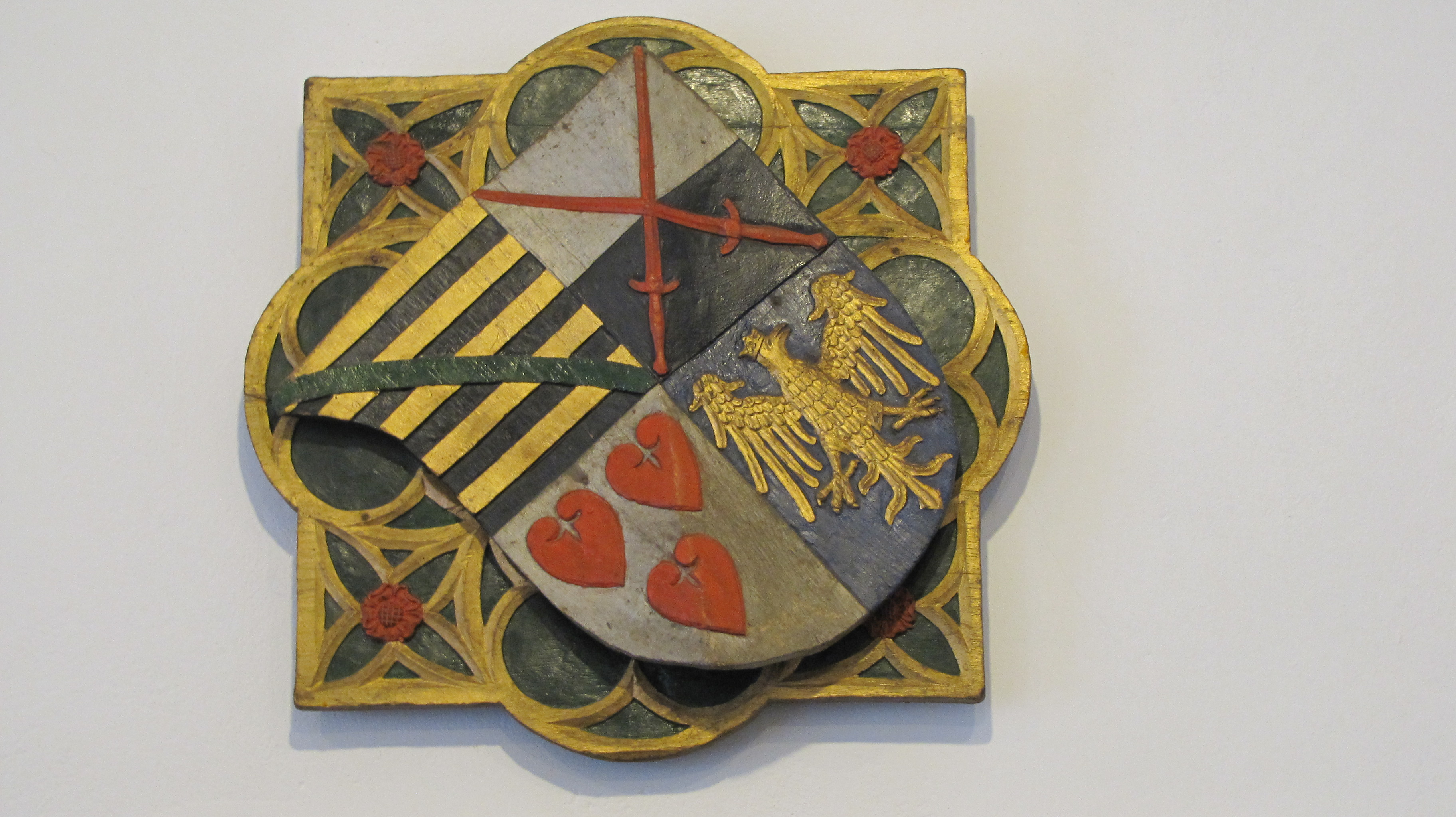 Coat of arms of Duke Bernhard II. (Sachsen-Lauenburg), formerly in Ratzeburg Cathedral, today in the Kreismuseum Ratzeburg